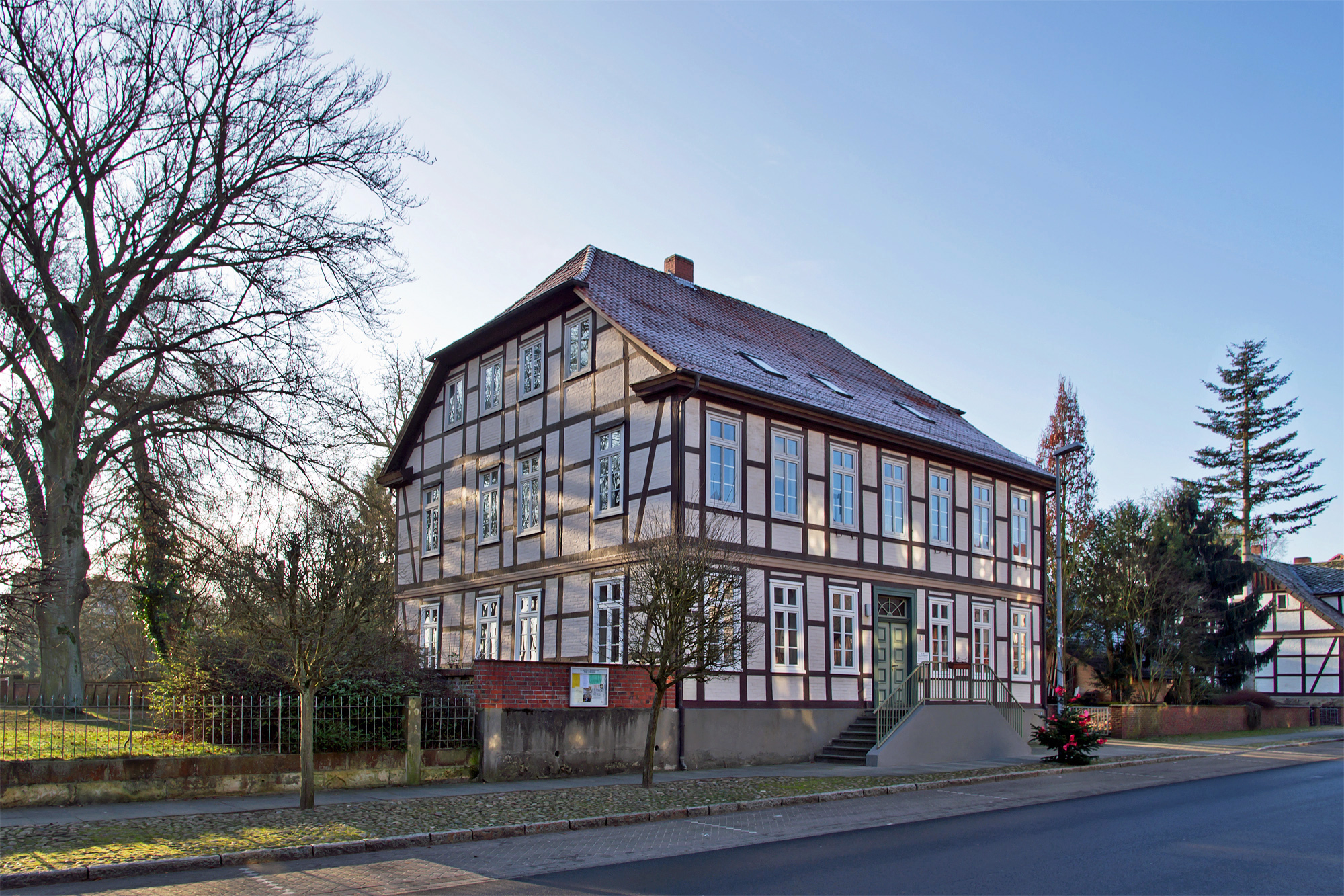 Building "Breite Strasse 8" in Bergen/Dumme (district Lüchow-Dannenberg, northern Germany); a cultural heritage monument.